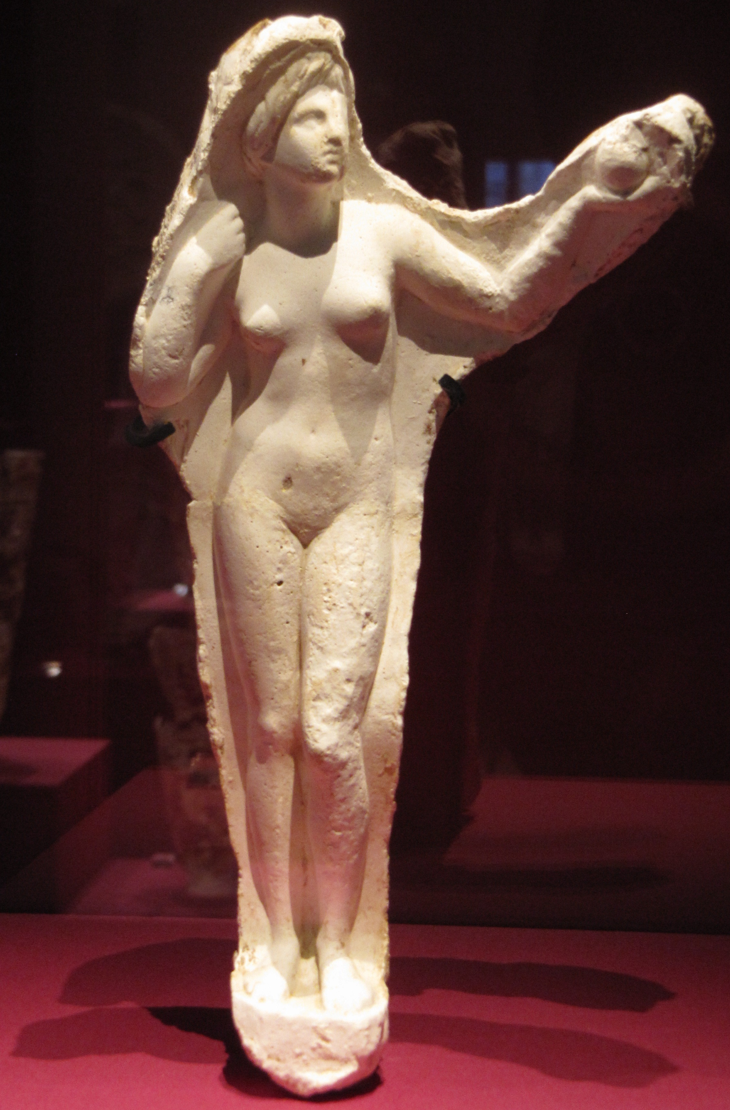 Aphrodite, Begram, Room 13, 1st century A.D., Plaster, National Museum of Afghanistan, Personal photograph 2011, British Museum.